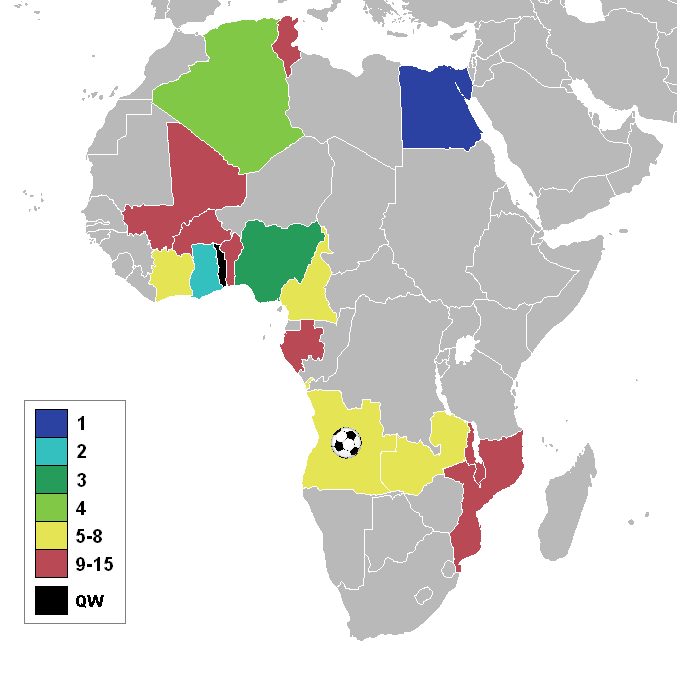 Countries positions in the 2010 African Cup of Nations 1st 2nd 3rd 4th 5th-8th 9th-15th Qualified but withdrew Football denotes host nation (Angola)